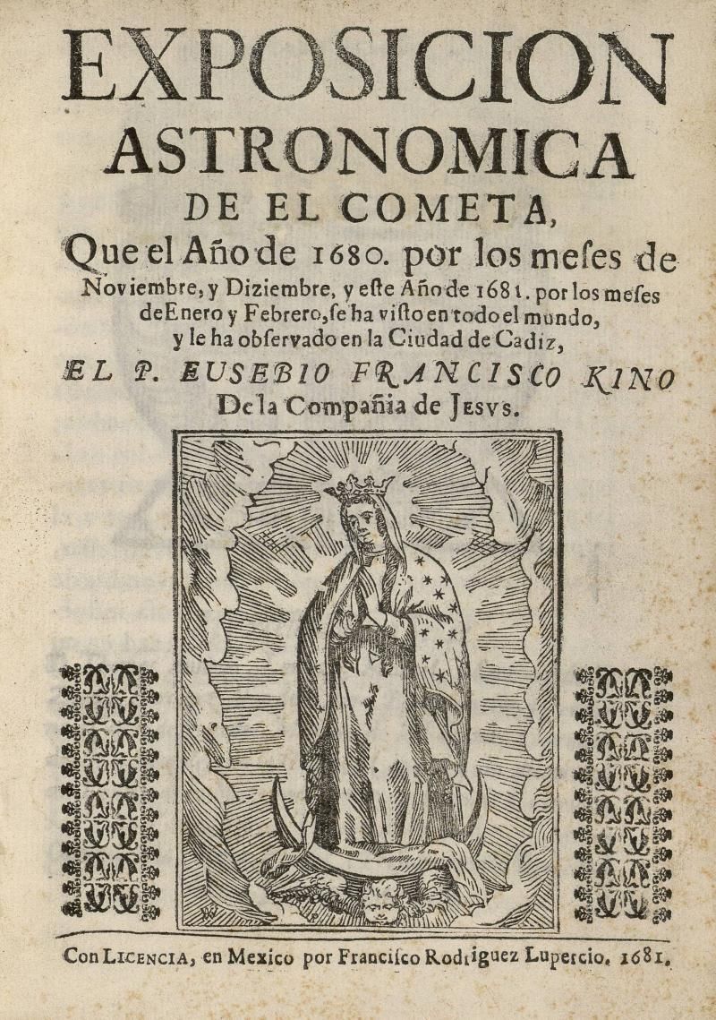 Treatise of the Great Comet of 1680